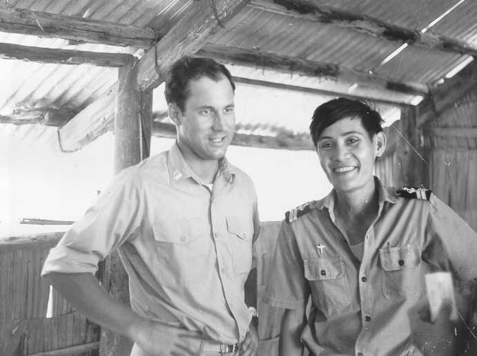 Sherman's doctor and a South Vietnamese corpsman at a medical Civil Action Patrol in a small Vietnamese village.